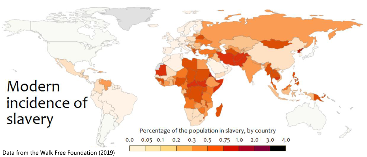 Global slavery map, data from Walk Free Foundation 2019